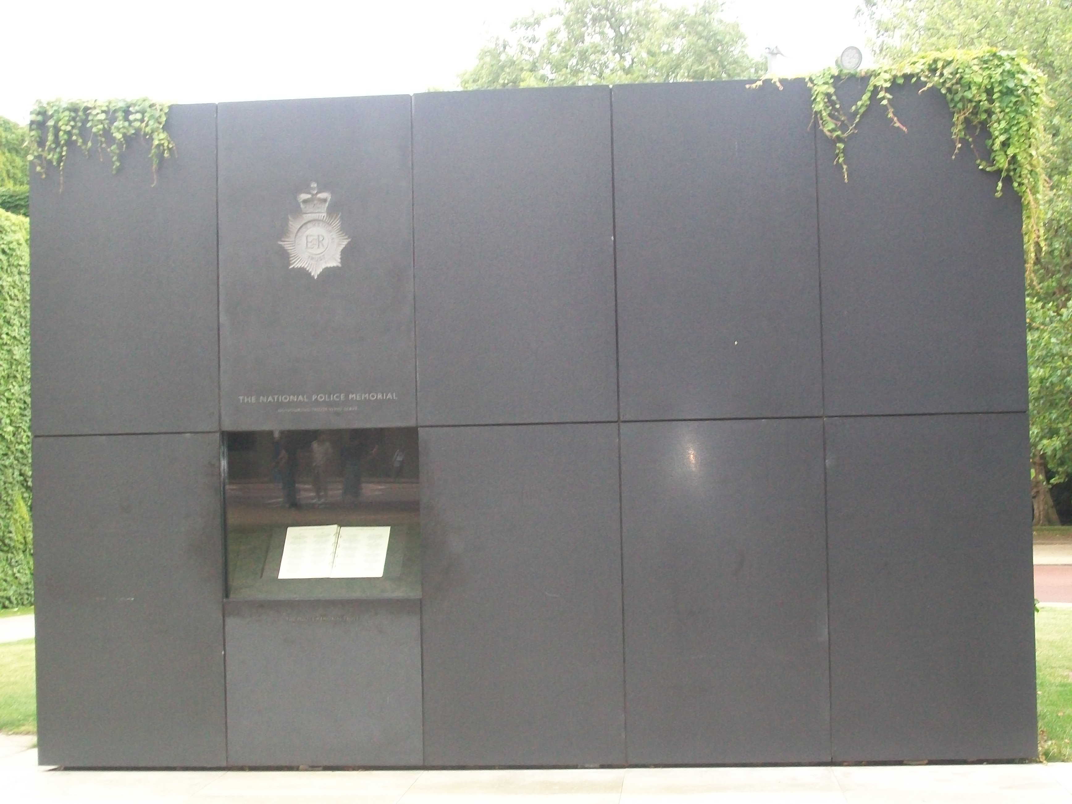 The National Police Memorial, in London